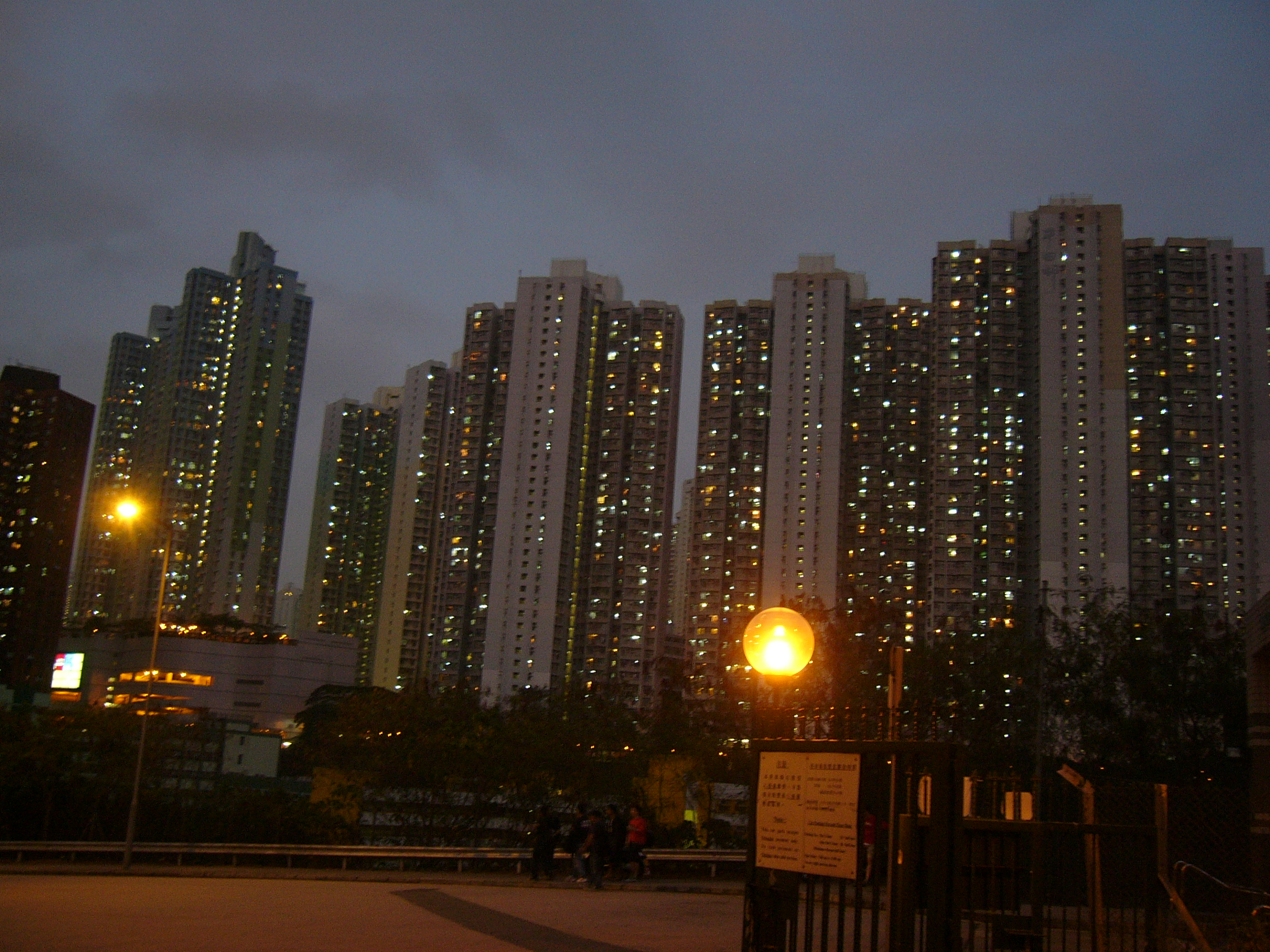 Lam Tin Cityscape